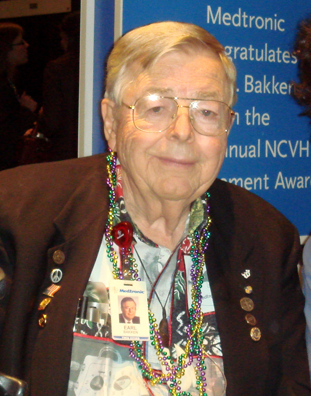 Earl Bakken, founder of Medtronic and developer of the first wearable artificial pacemaker.